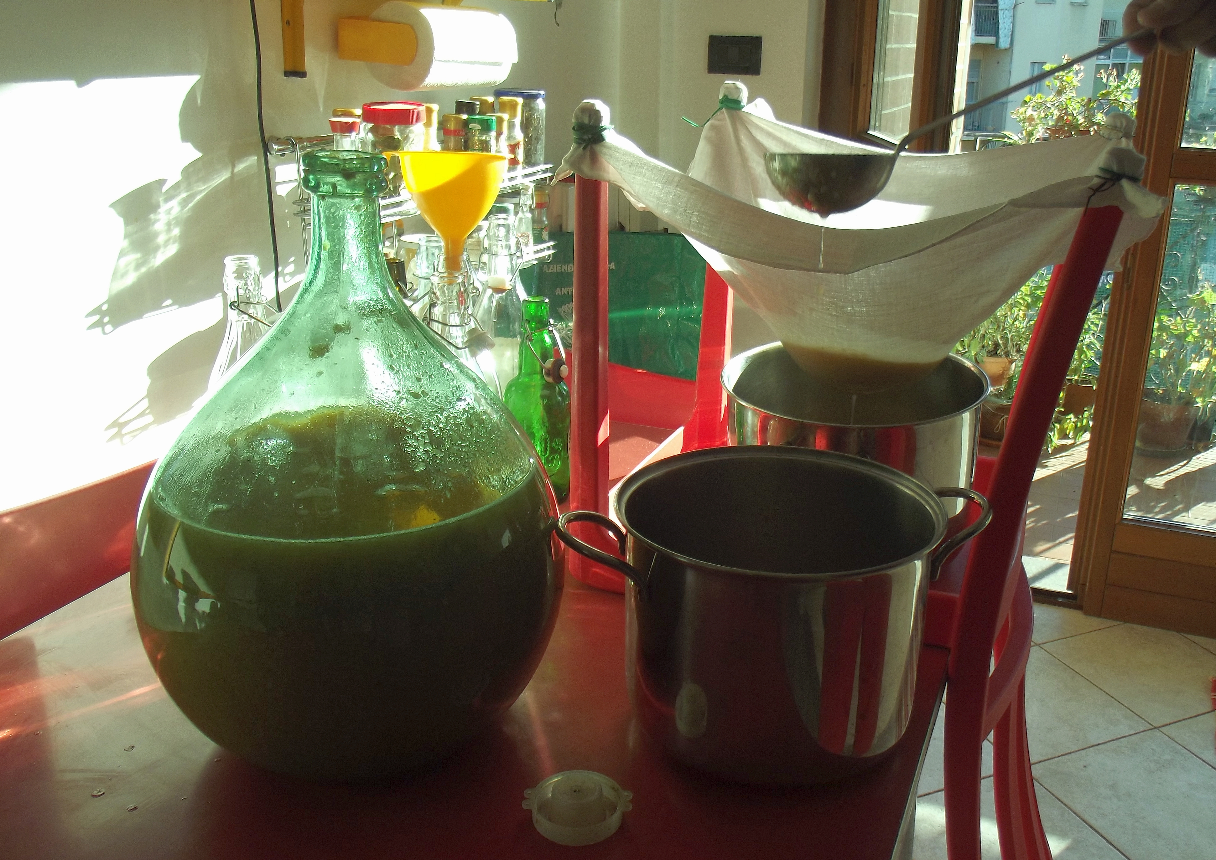 Home-made perry soutirage